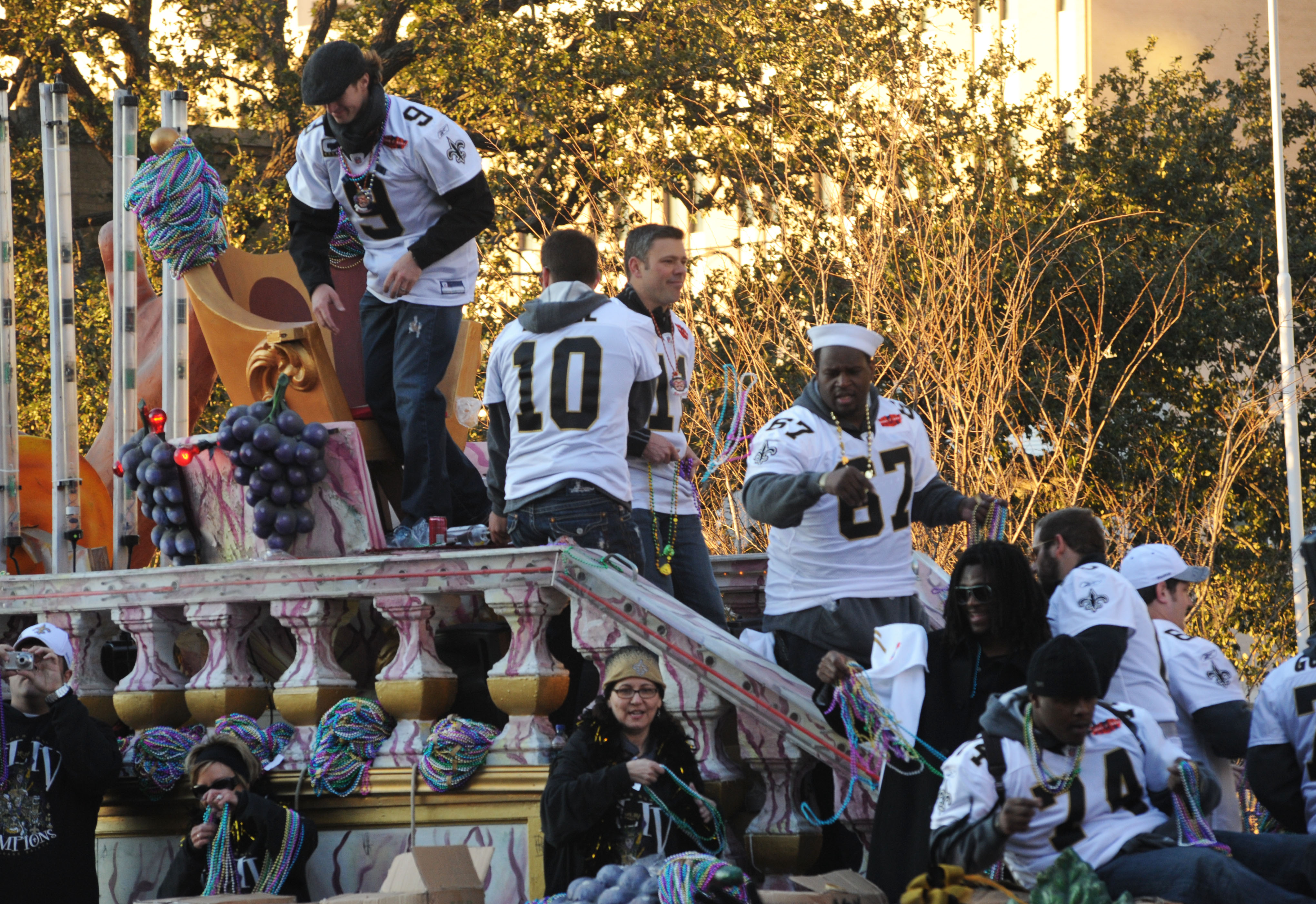 The Saints' Victory Parade, New Orleans, February 9, 2010